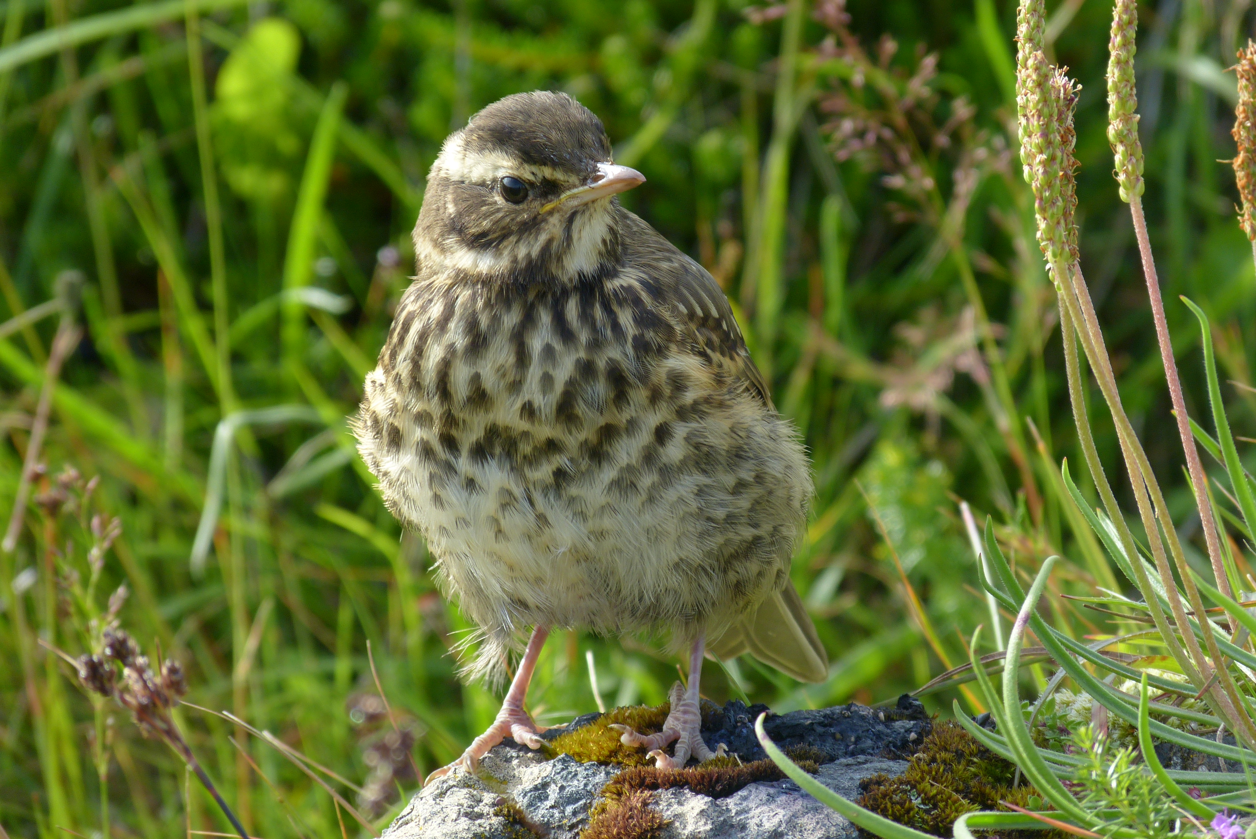 Redwing (Turdus iliacus) on Snæfellsnes, Iceland